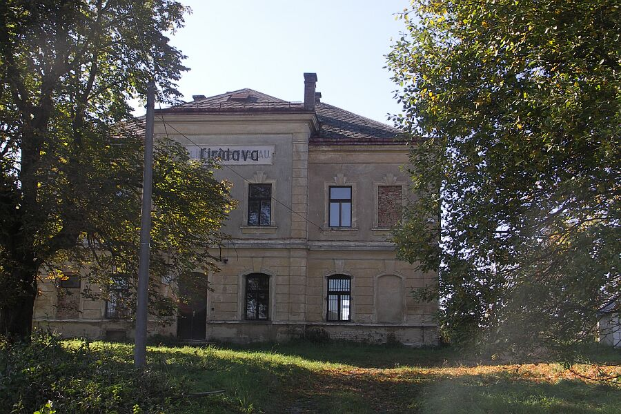 formerly train station Lindava, Czech Republic